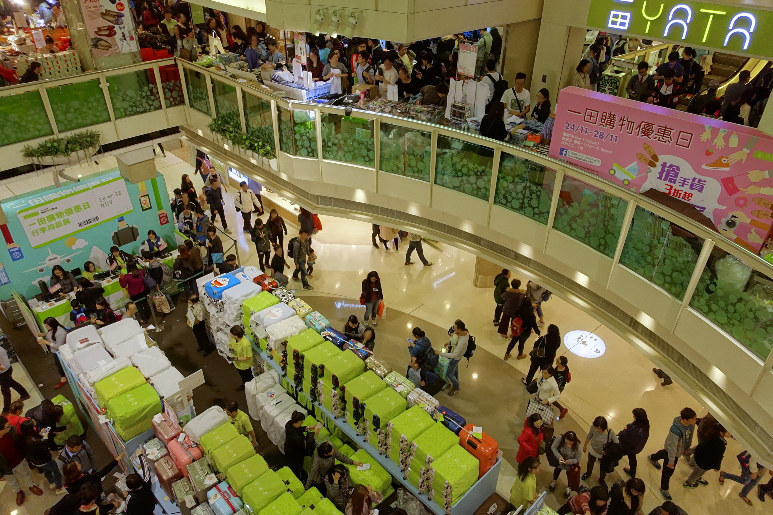 YATA Shopping Day, YATA Department Store, Shatin, Hong Kong.